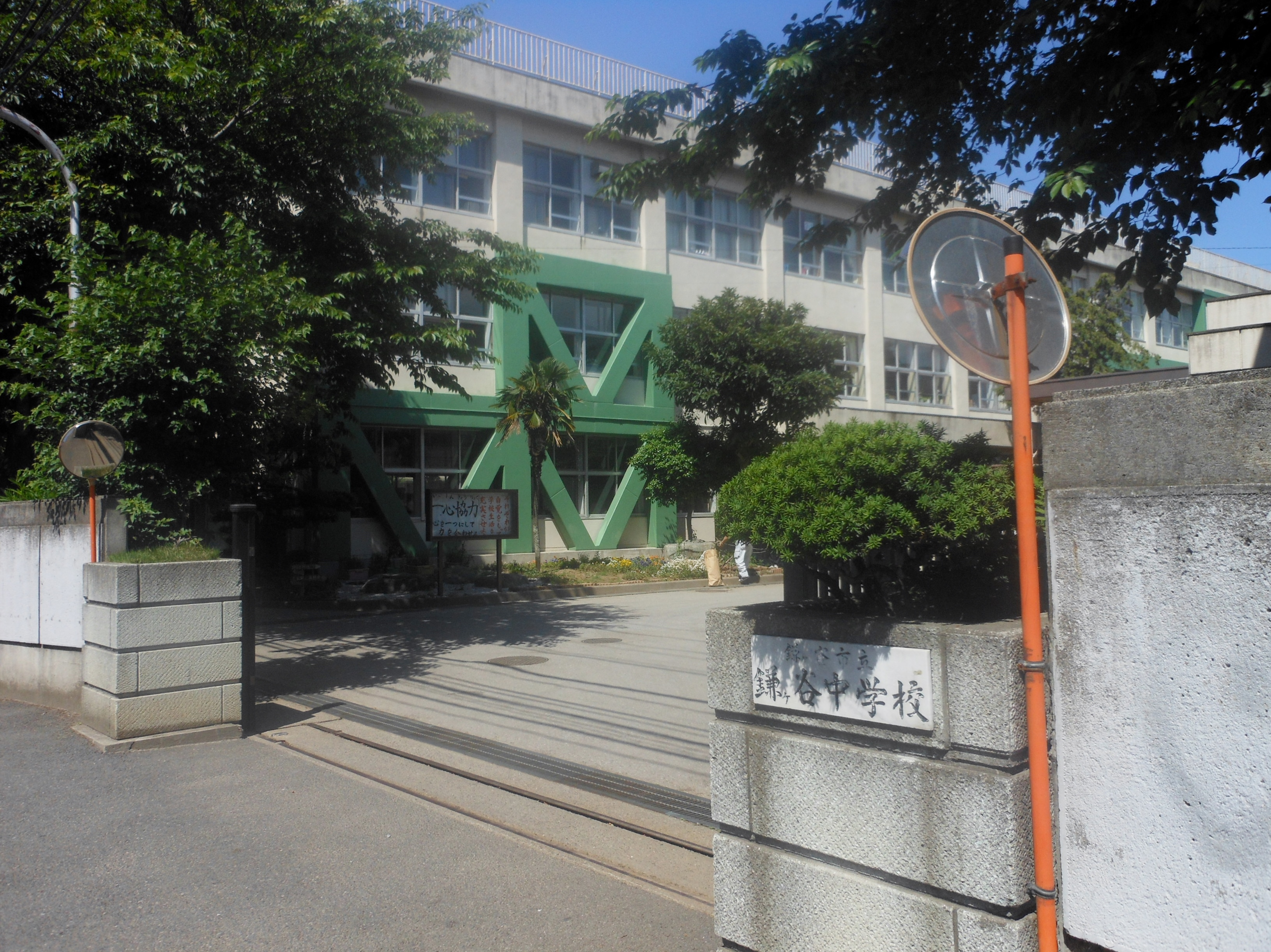 This is the Kamagaya city Kamagaya junior high school in Chiba, Japan.